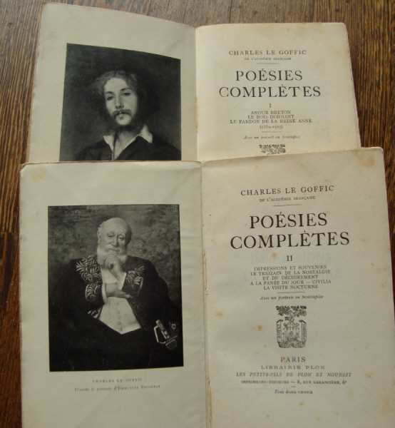 picture taken from the title pages of the "Poésies complètes" de Charles LE GOFFIC en deux volumes, édition Plon 1931, photo's en frontispice from Charles Corbineau (upper) and Emmanuel Fougerat (lower).